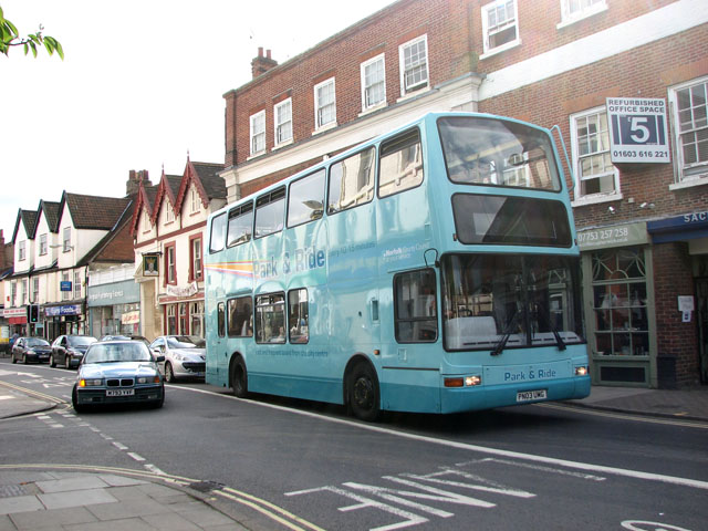 Park and Ride bus in Magdalen Street, Norwich, Data from Geograph: Description: It is more 'park' than 'ride' on this busy Open Heritage Weekend Saturday in the city of Norwich. ICBM: 52.634627937335, 1.2967409383849 Location: (about 1 km from) near to Norwich, Norfolk, Great Britain.